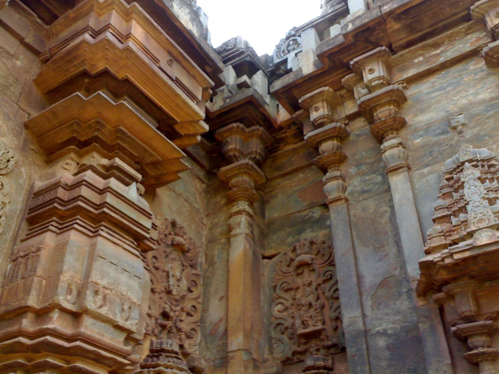 Chandramouleshwara temple Unkal